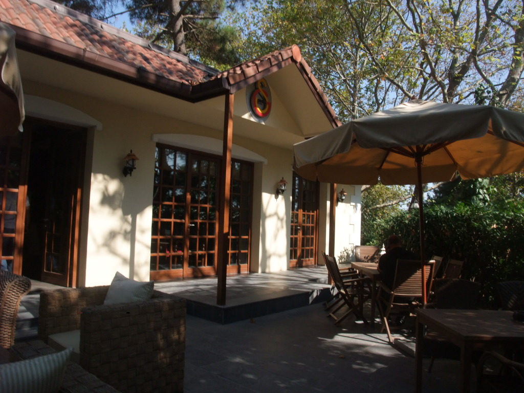 Nevzat Ozgorkey Equestrian Facilities outside